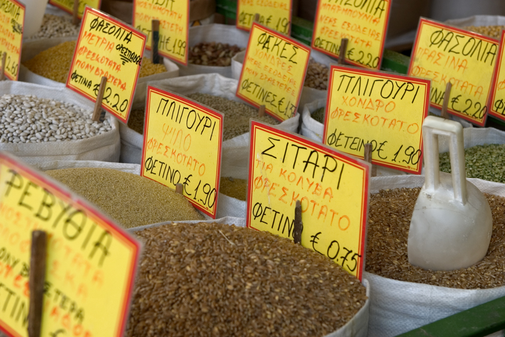 Legumes and wheat at an Athens market. I took this shot while walking through a produce market in Athens, Greece. The vendors weren't very happy with me taking photos, but I really like this one.